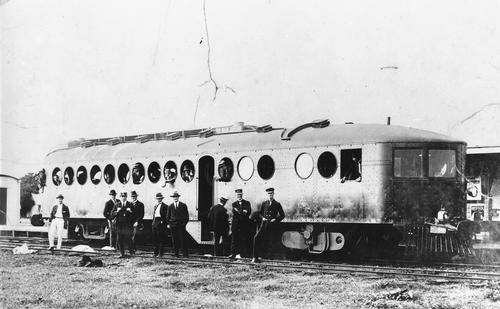 McKeen rail motor car, ca. 1913. This Mckeen motor car was one of five imported in 1913. These were the first Queensland railmotors. (Description supplied with photograph)